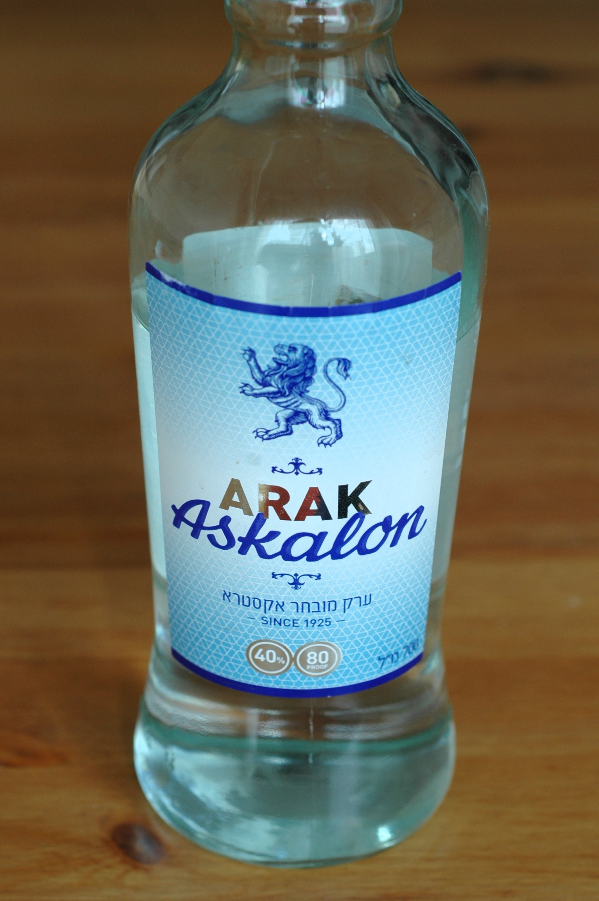 Bottle of Arak Askalon from Israel